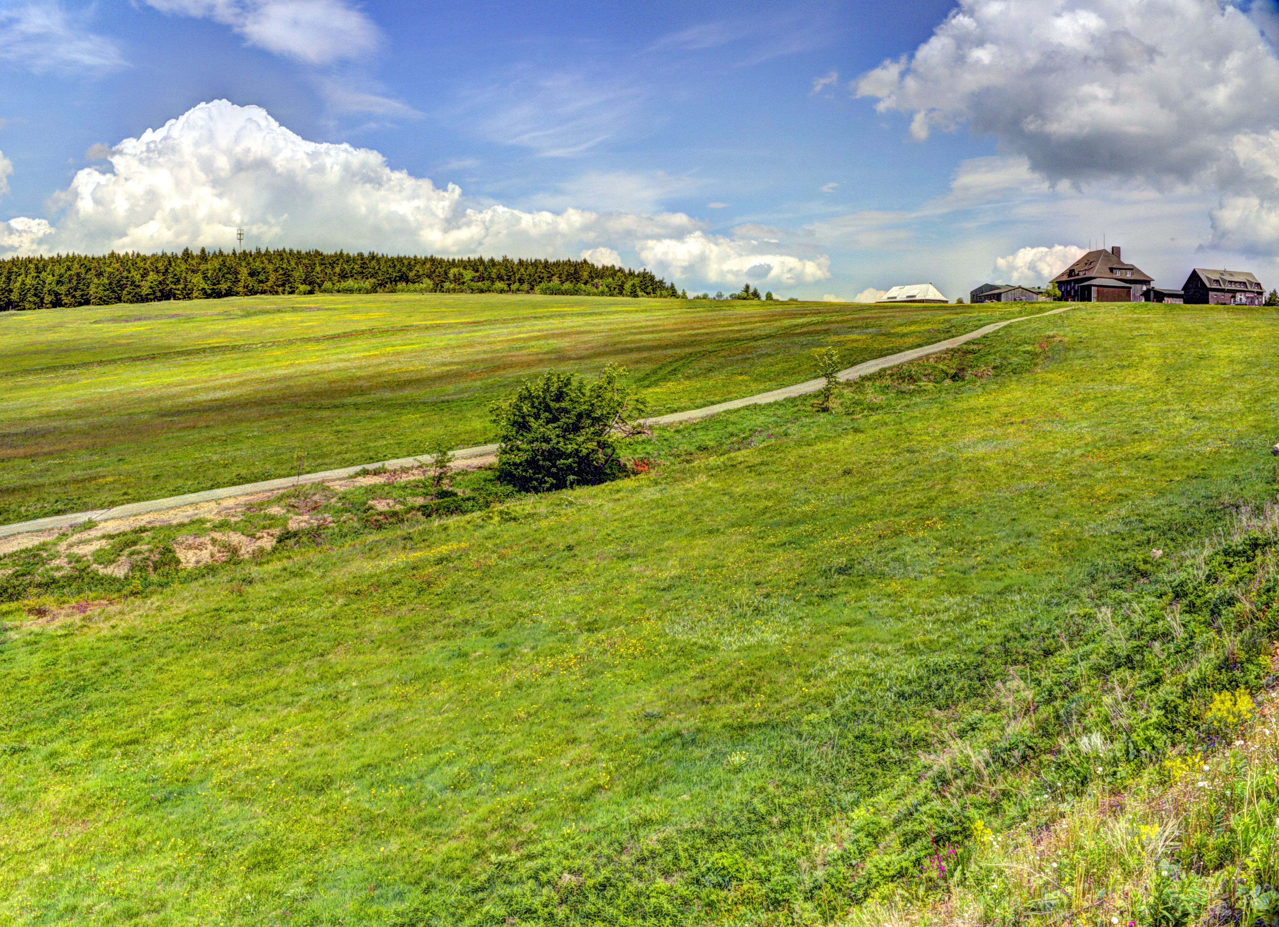 Border crossing at Boží Dar in the Ore Mountains / Karlovy Vary Region / Czech Republic / EU